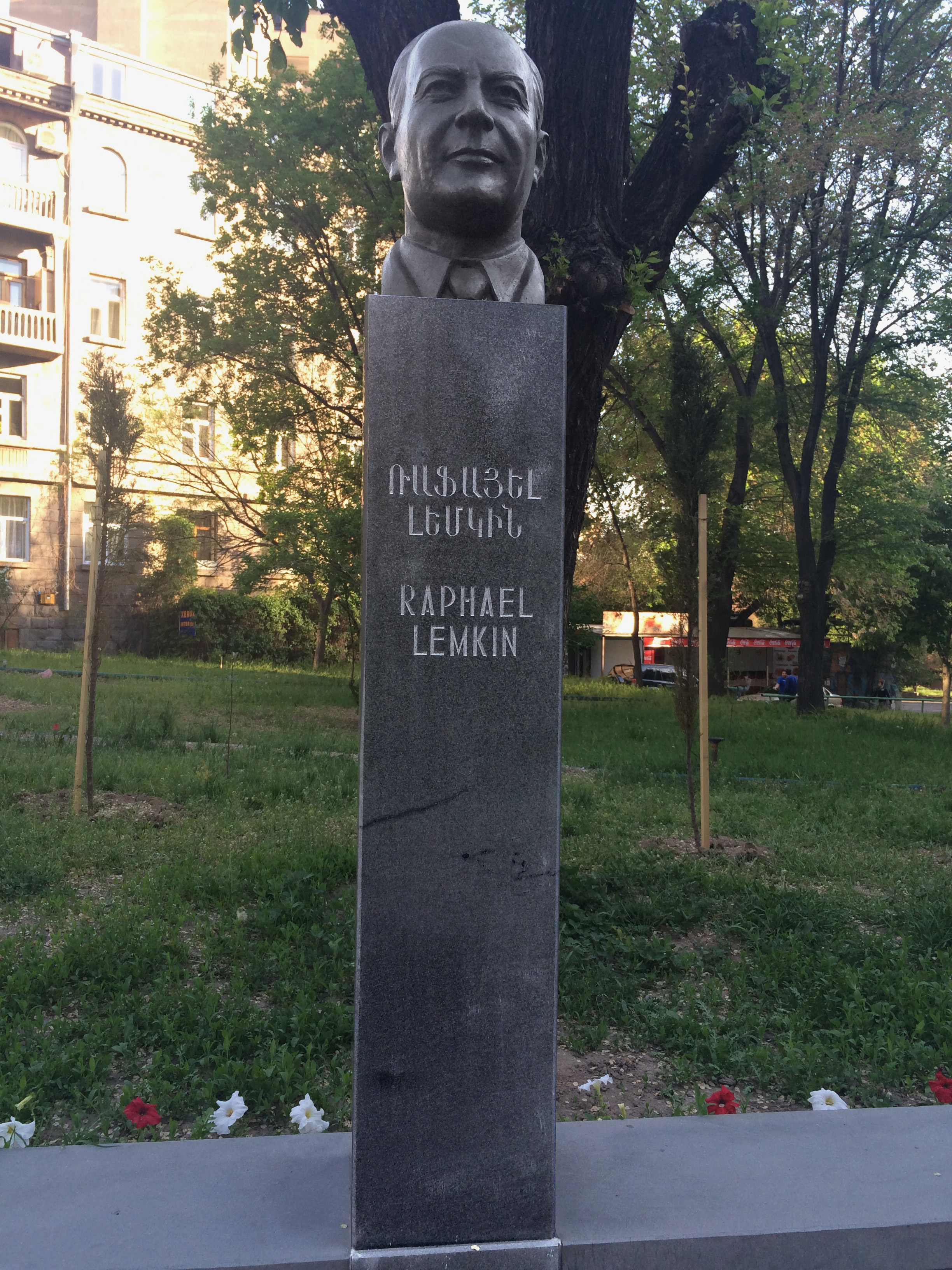 The bust of Raphael Lemkin in Alley Gratitude, Yerevan